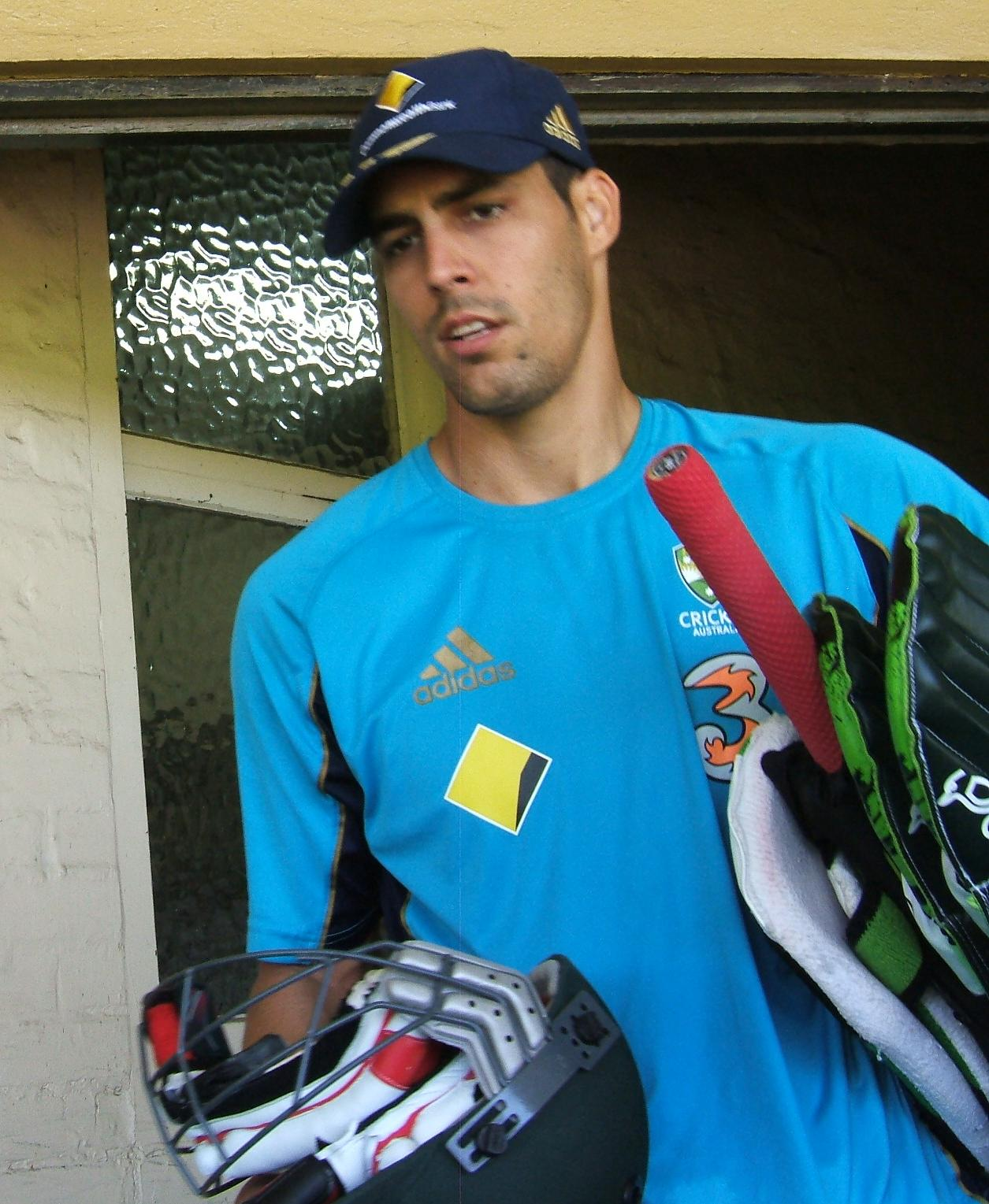 Mitchell Johnson at a training session at the Adelaide Oval